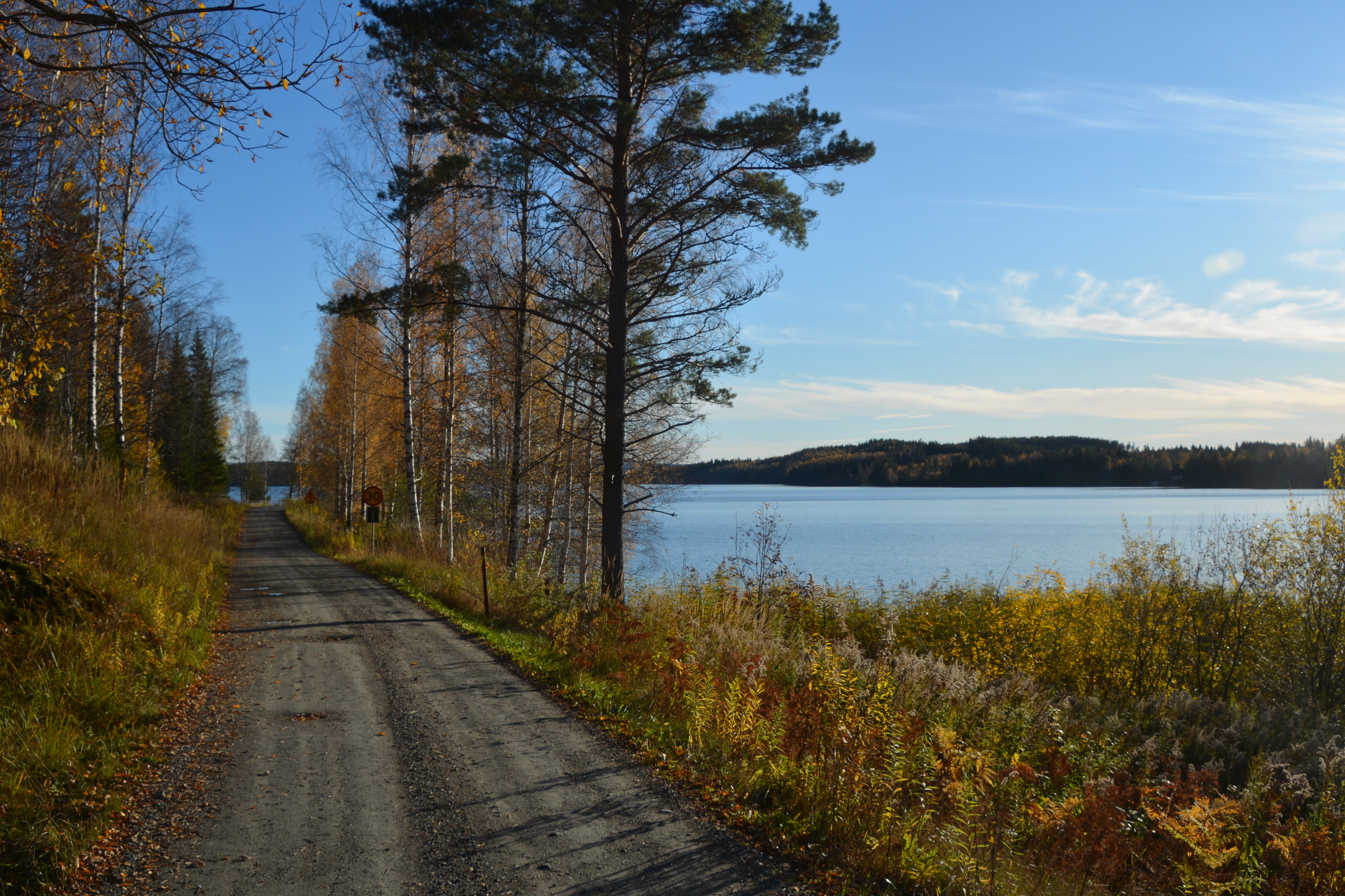 Ljusnaren vid Skäret